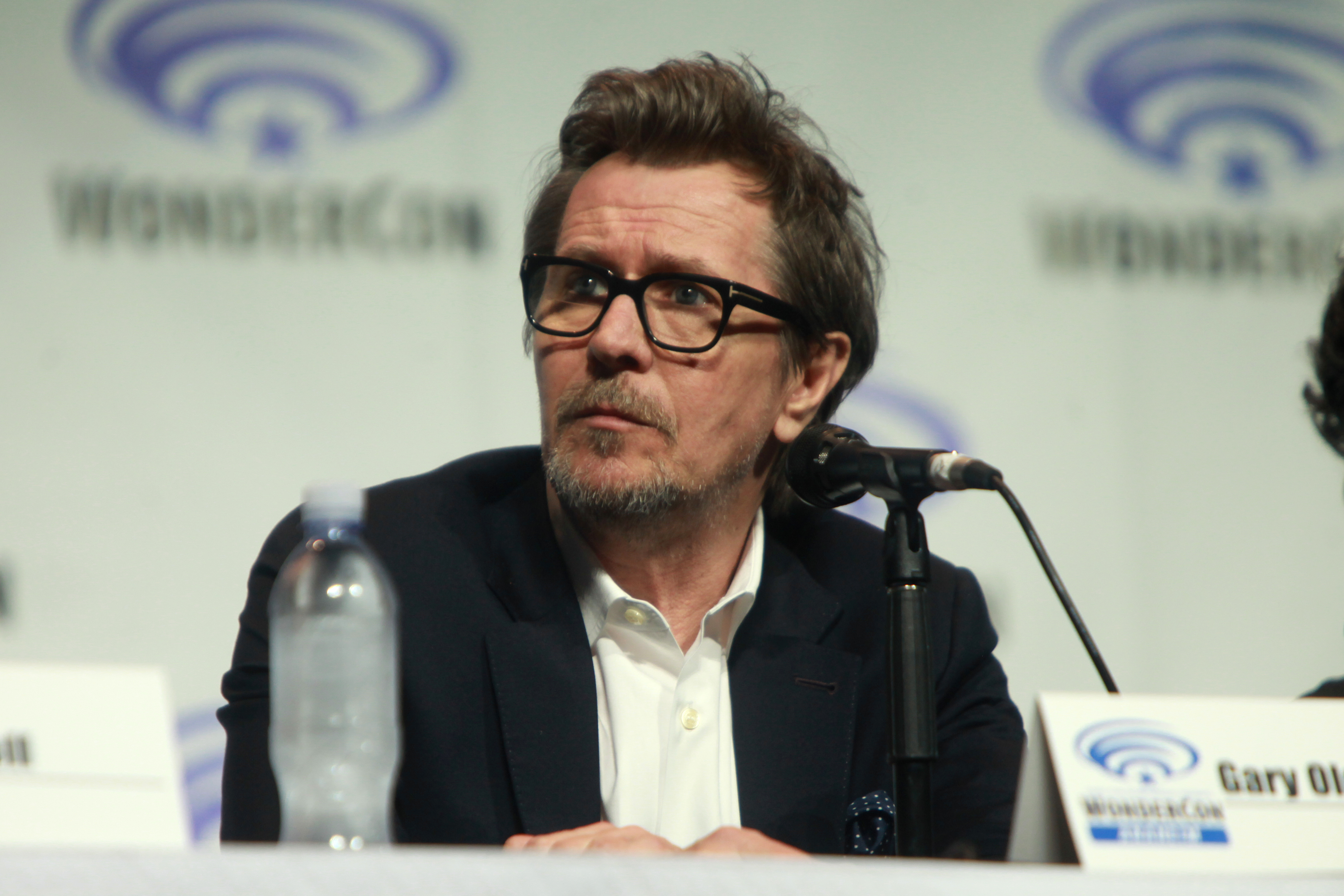 Gary Oldman speaking at the 2014 WonderCon, for "Dawn of the Planet of the Apes", at the Anaheim Convention Center in Anaheim, California.